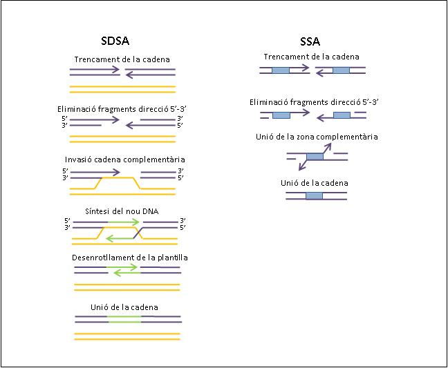 rad